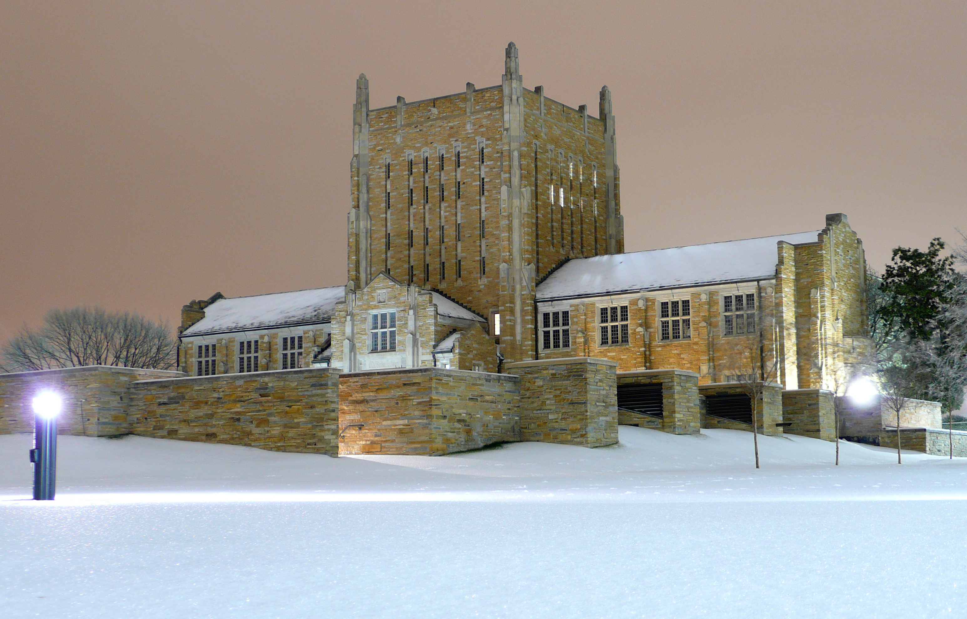 McFarlin Library on the University of Tulsa campus during the North American ice storm of 2007.